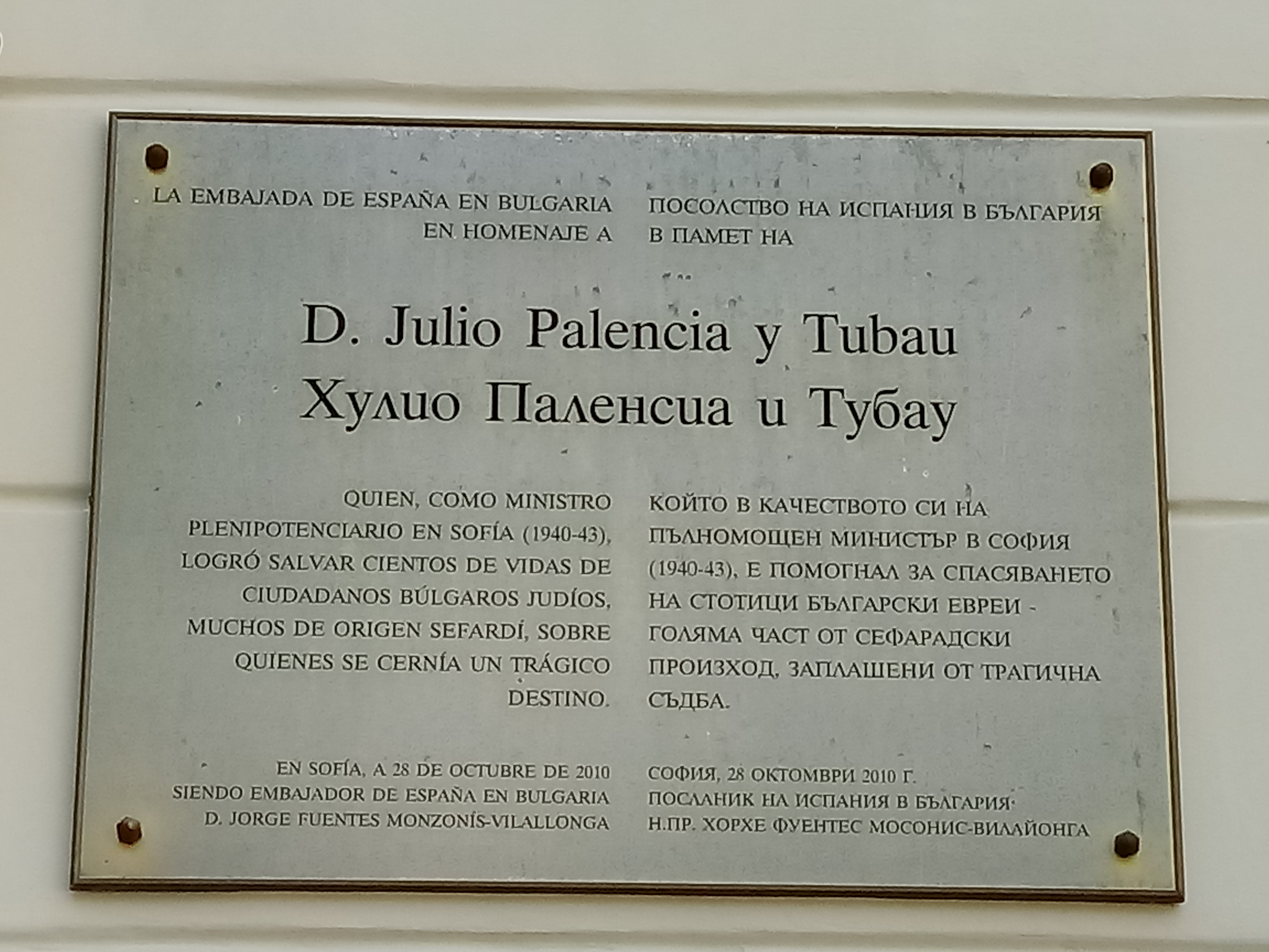 Memorial plaque of Spain's Ambassador in Bulgaria (1940-1943) Julio Palencia y Tubau on the wall of the Spanish Embassy on Vasil Aprilov Str., Sofia